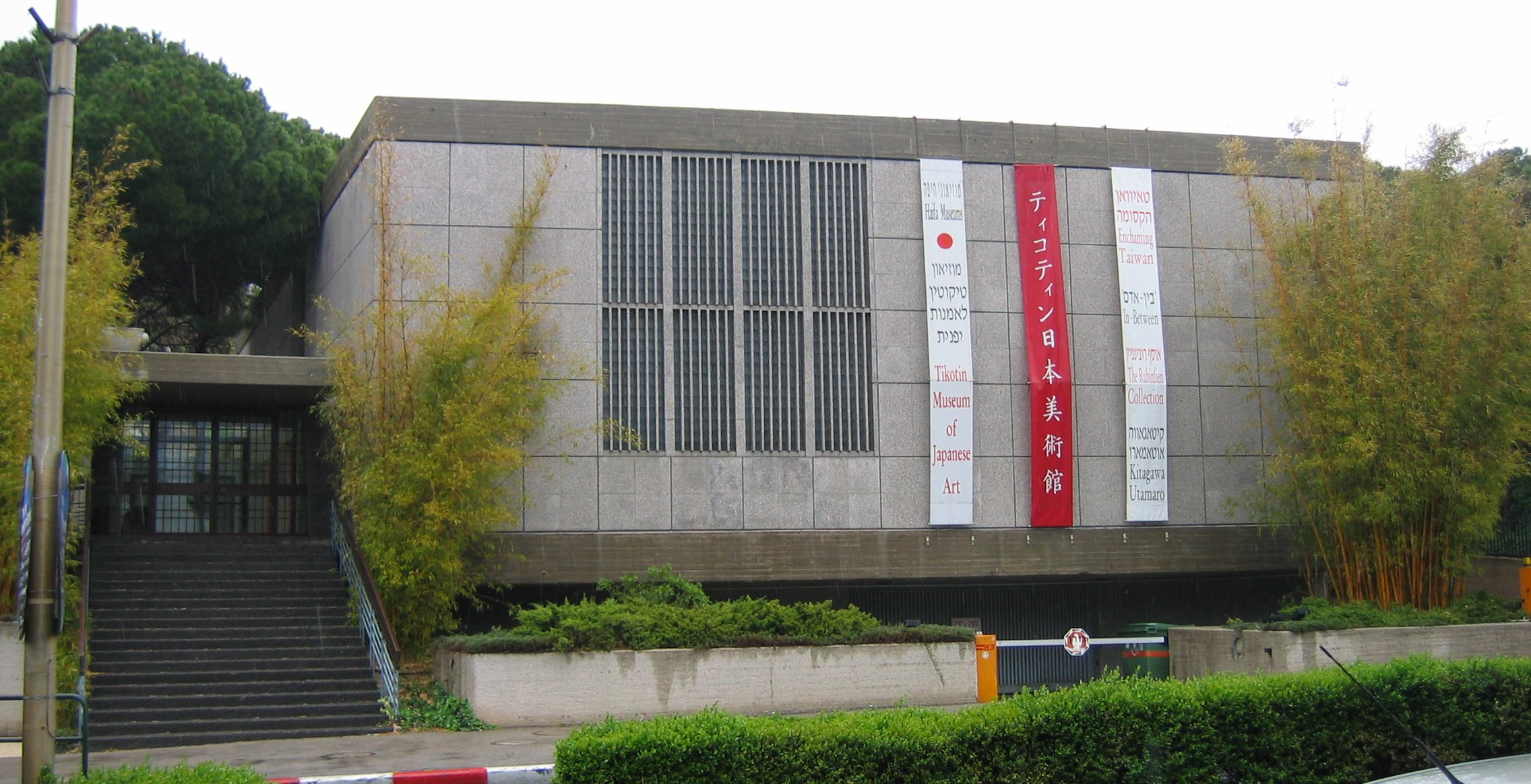 Taken by Asaf Elron on April 1st, 2006.